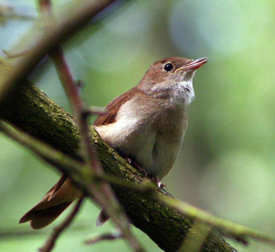 Common Nightingale Luscinia megarhynchos, Offenbach am Main, Hessen, Germany